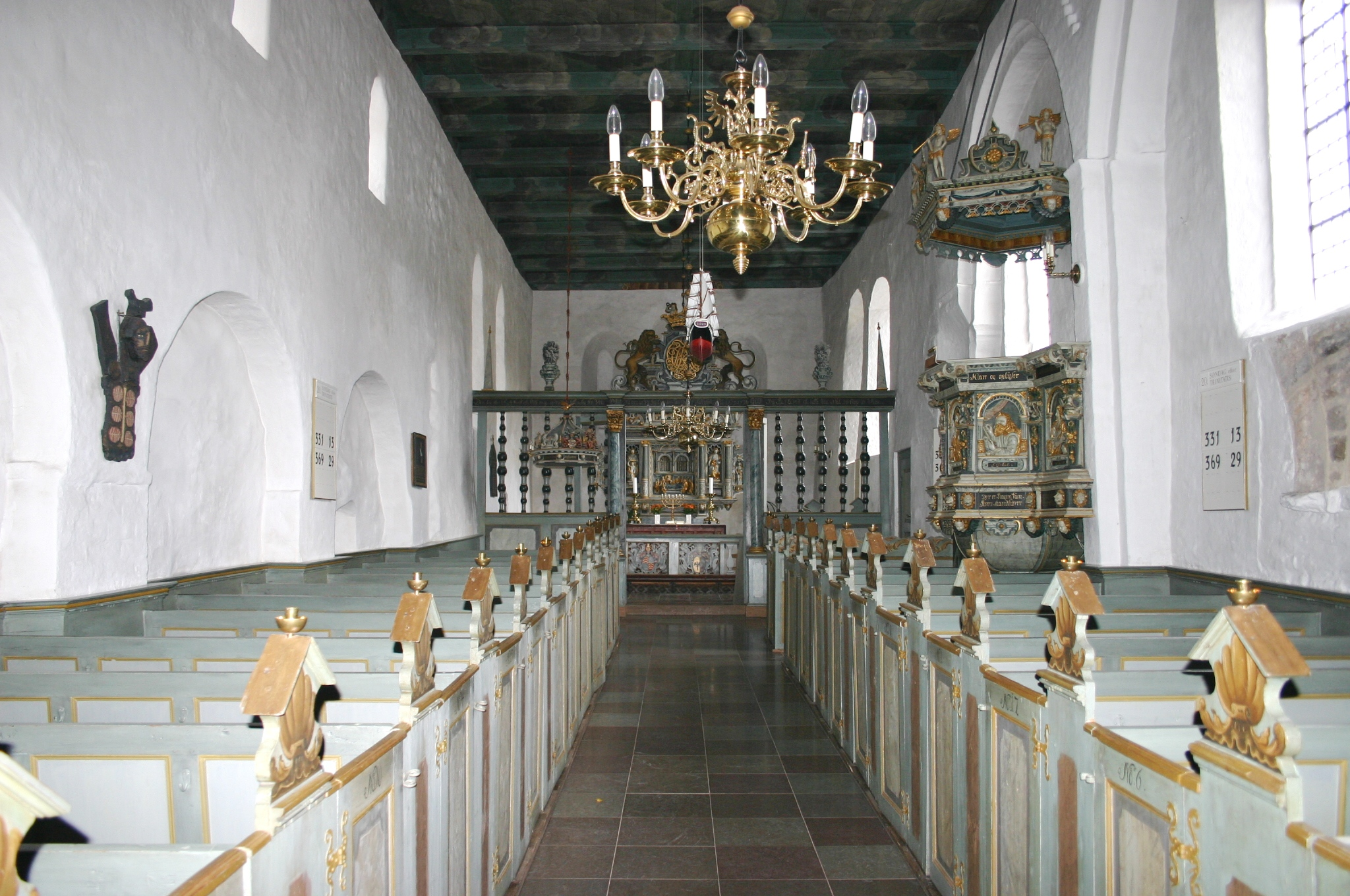 The inner of Asmild Church, Viborg, Denmark Asmild Kirkes indre